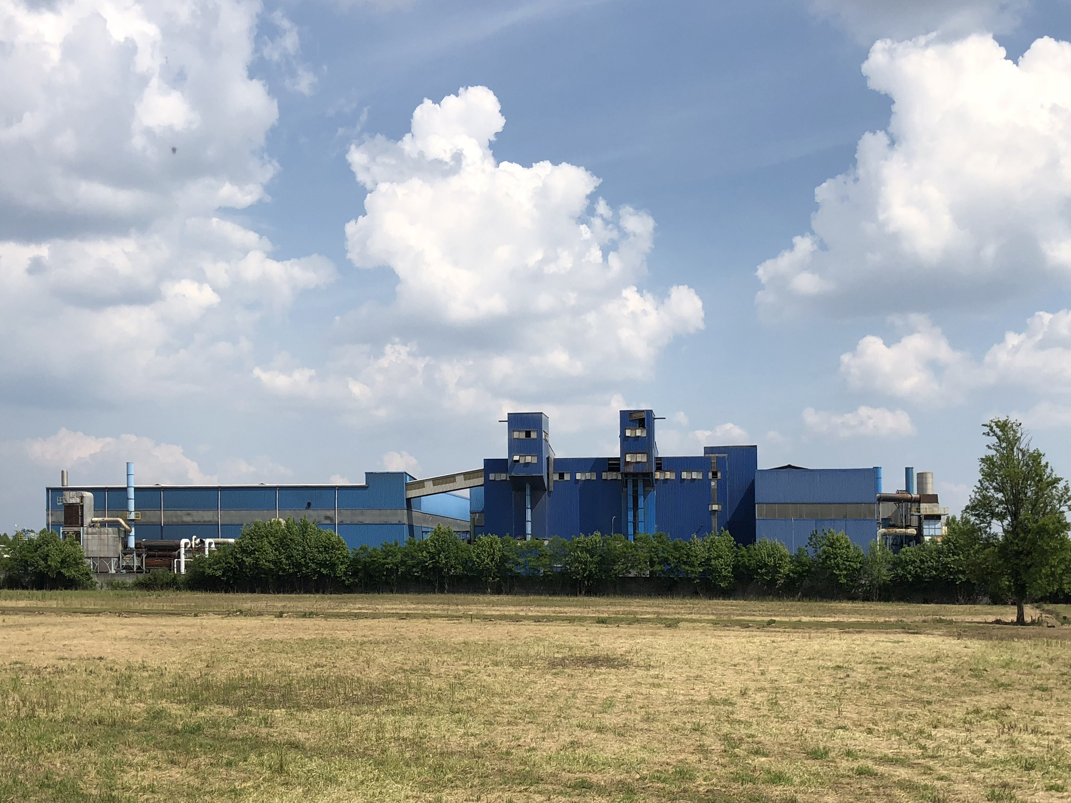 Alluminium refinery Raffinerie Metalli Capra in Castel Mella province of Brescia Italy.